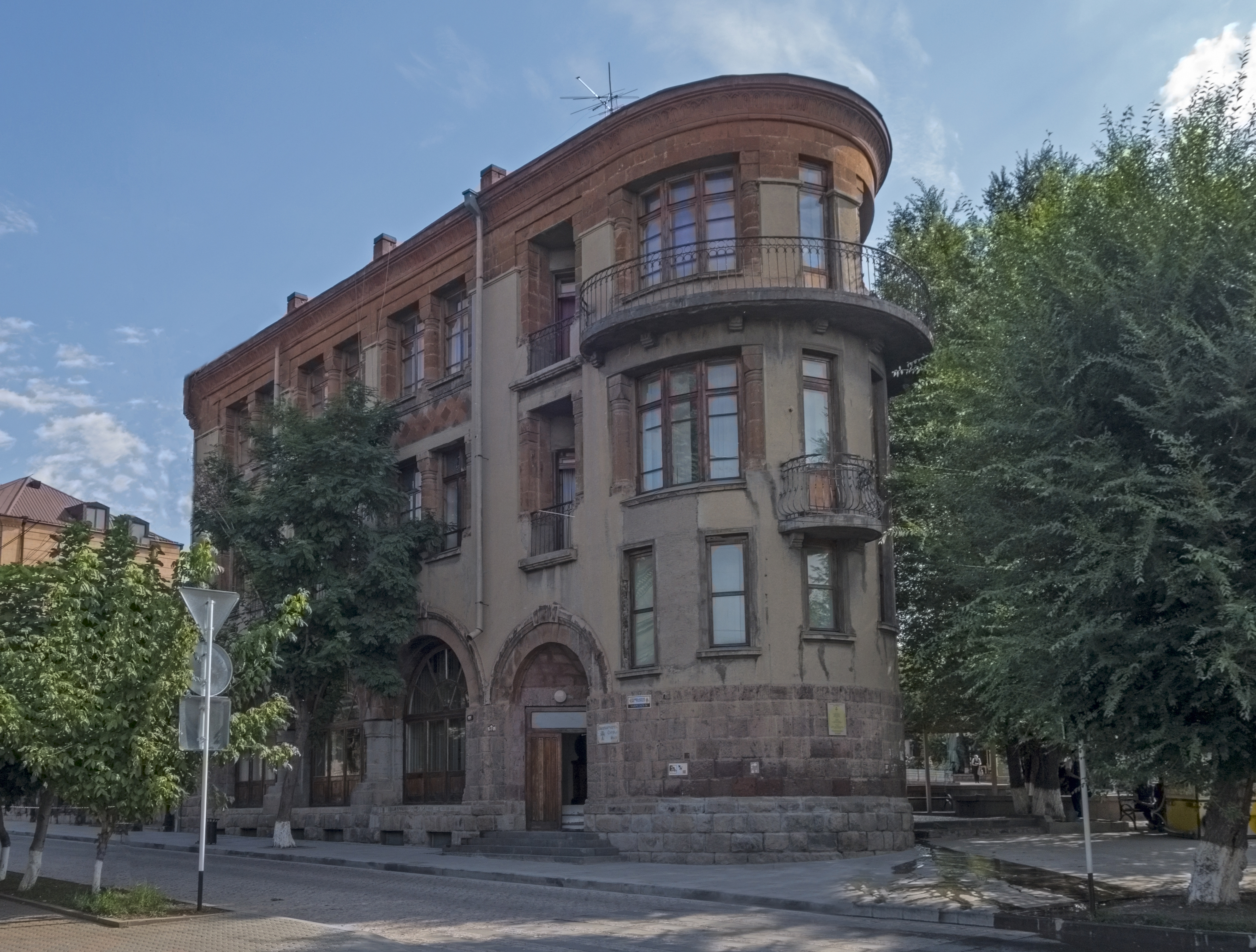 Diocese of Shirak: building on the Ryzhkov Street. Gyumri, Shirak Province, Armenia. 1/4.797